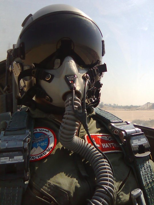 egyptian F16c pilot during an exercise.